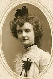 Photo of Annie Dale Biddle Andrews (December 13, 1885 – April 14, 1940) from Women Who Figure